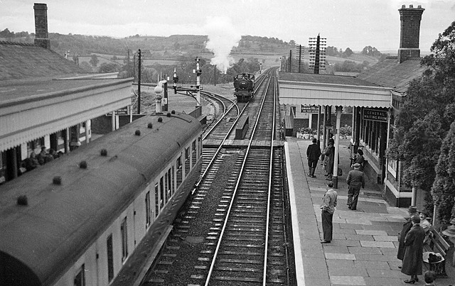 Ledbury Station. View westward, towards Hereford ahead, with branch from Gloucester joining on left; Great Western main line, Worcester - Hereford. The locomotive, a Class 57XX 0-6-0 Pannier Tank, has just run round its train from Gloucester (at the Down platform) and will work it back; the Gloucester service ceased on 13/7/59, with complete closure of the Dymock - Ledbury section, goods trains Gloucester - Dymock lasting until 1964. The station is about a mile from Ledbury town. The signalman at Ledbury (C.Cooke, 45 years service (1968-2013)) when shown this photograph, stated that the train is almost certainly the afternoon school service from Worcester to Ledbury, because no other regular train service involved the engine uncoupling and running around the coaches as shown before setting off empty to Worcester. In 1958 the service to Gloucester was handled by a Class 14xx engine and one or two auto-coaches.